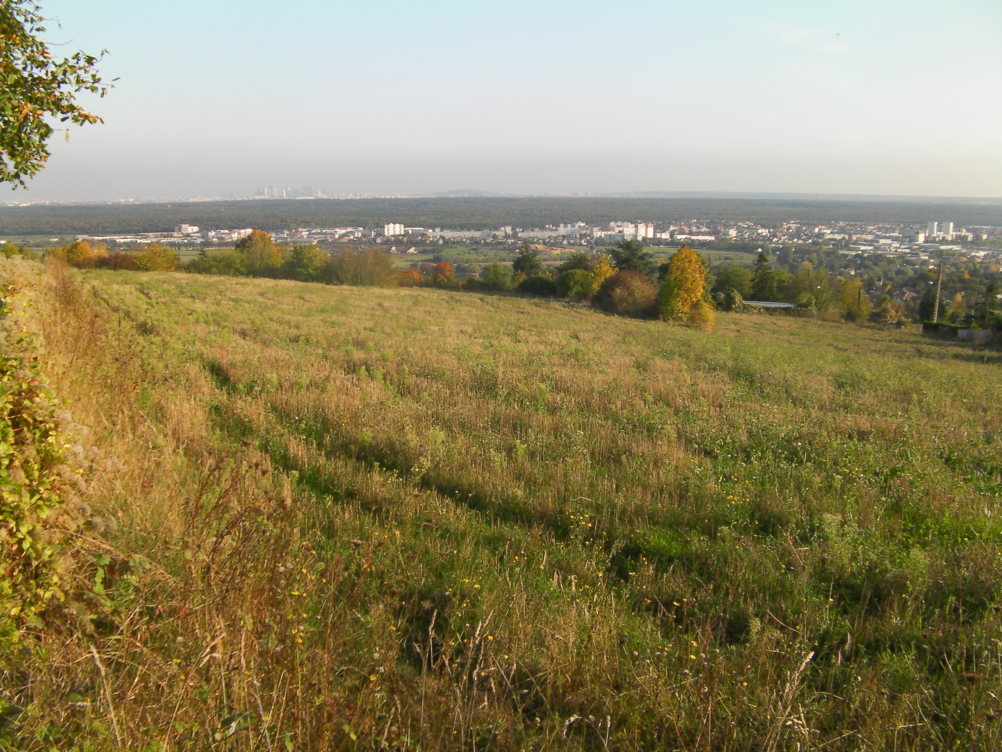 Achères from Andrésy